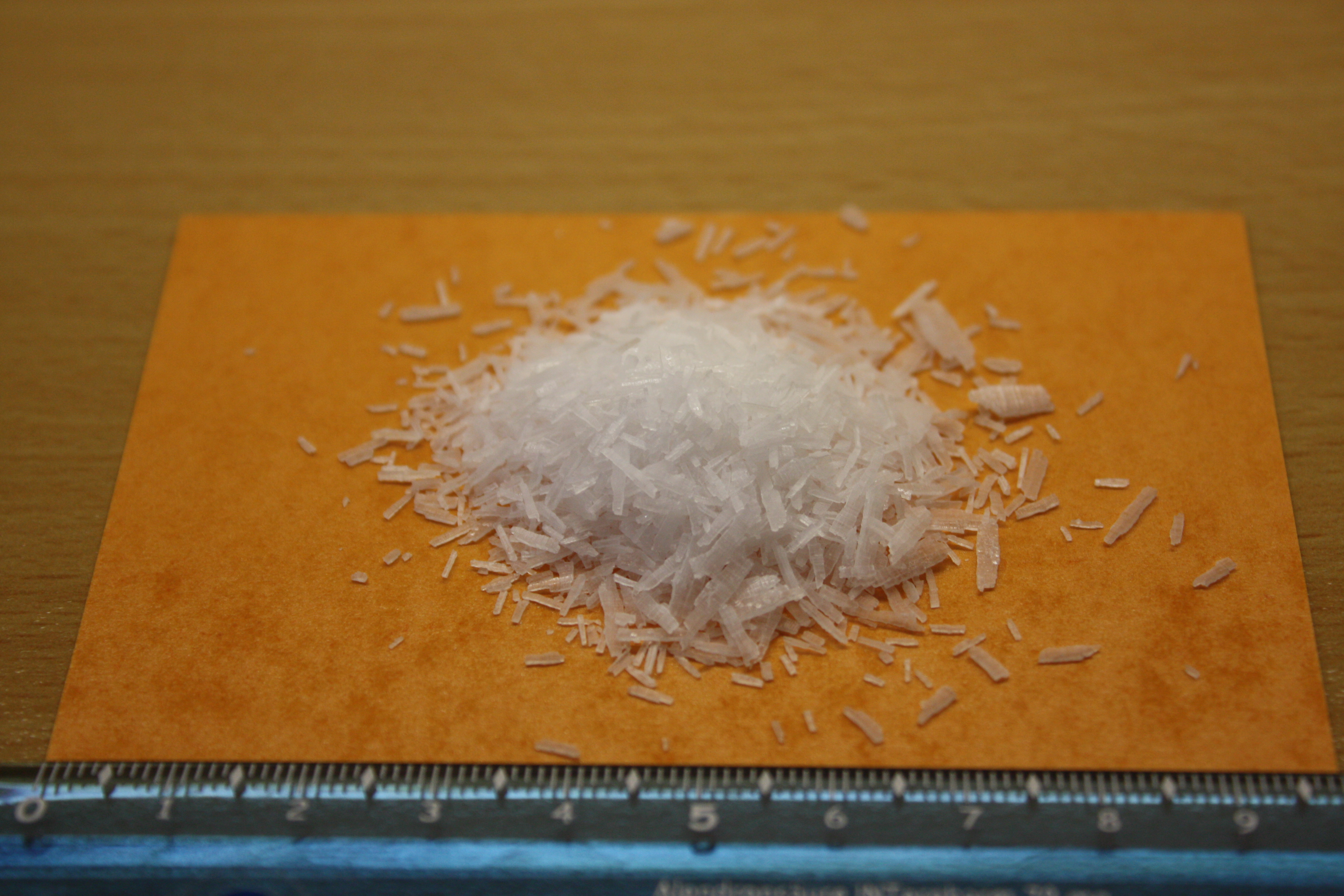 Polyethylene glycol (macrogol) 4000, pharmaceutical quality. Scale in cm.